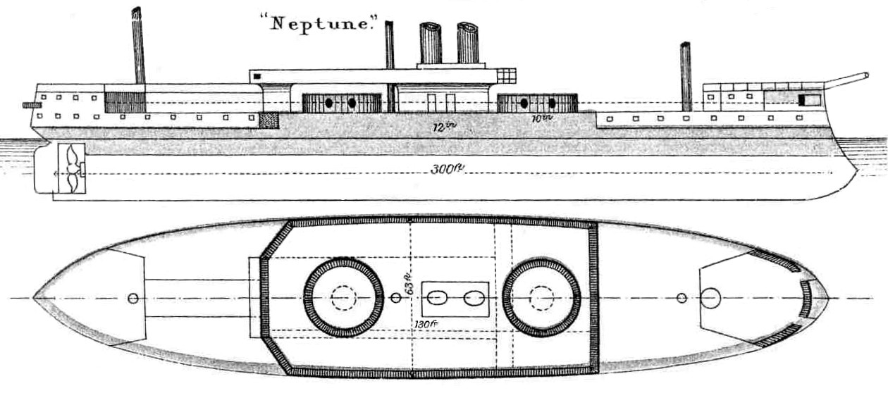 Right elevation and deck plan diagrams depicting British battleship HMS Neptune (1878), originally built as Independencia for Brazil.